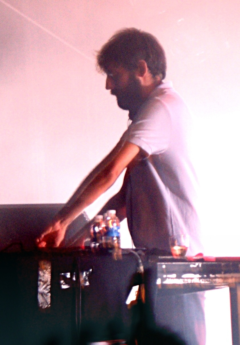 Mr. Oizo at festival Les Nuits secrètes (Aulnoye-Aymeries, France), in 2009.